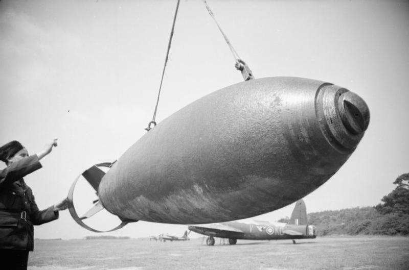 Royal Air Force Bomber Command, 1942-1945. A 4,000-lb GP Bomb is hoisted from its trolley during operational trials at Marham, Norfolk. It entered general service with Bomber Command squadrons in early 1943, but proved inferior to the 4,000-lb HC Bomb in its blast effect and was withdrawn from service by the end of the year. In the background Vickers Wellingtons of No. 115 Squadron RAF can be seen parked at their dispersals.